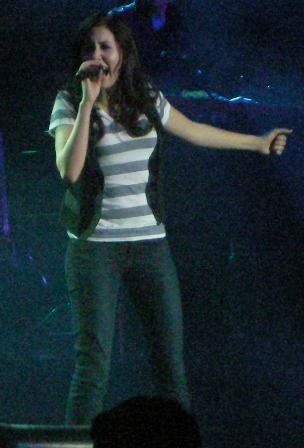 Francesca Battistelli on Winter Jam 2009 Tour.